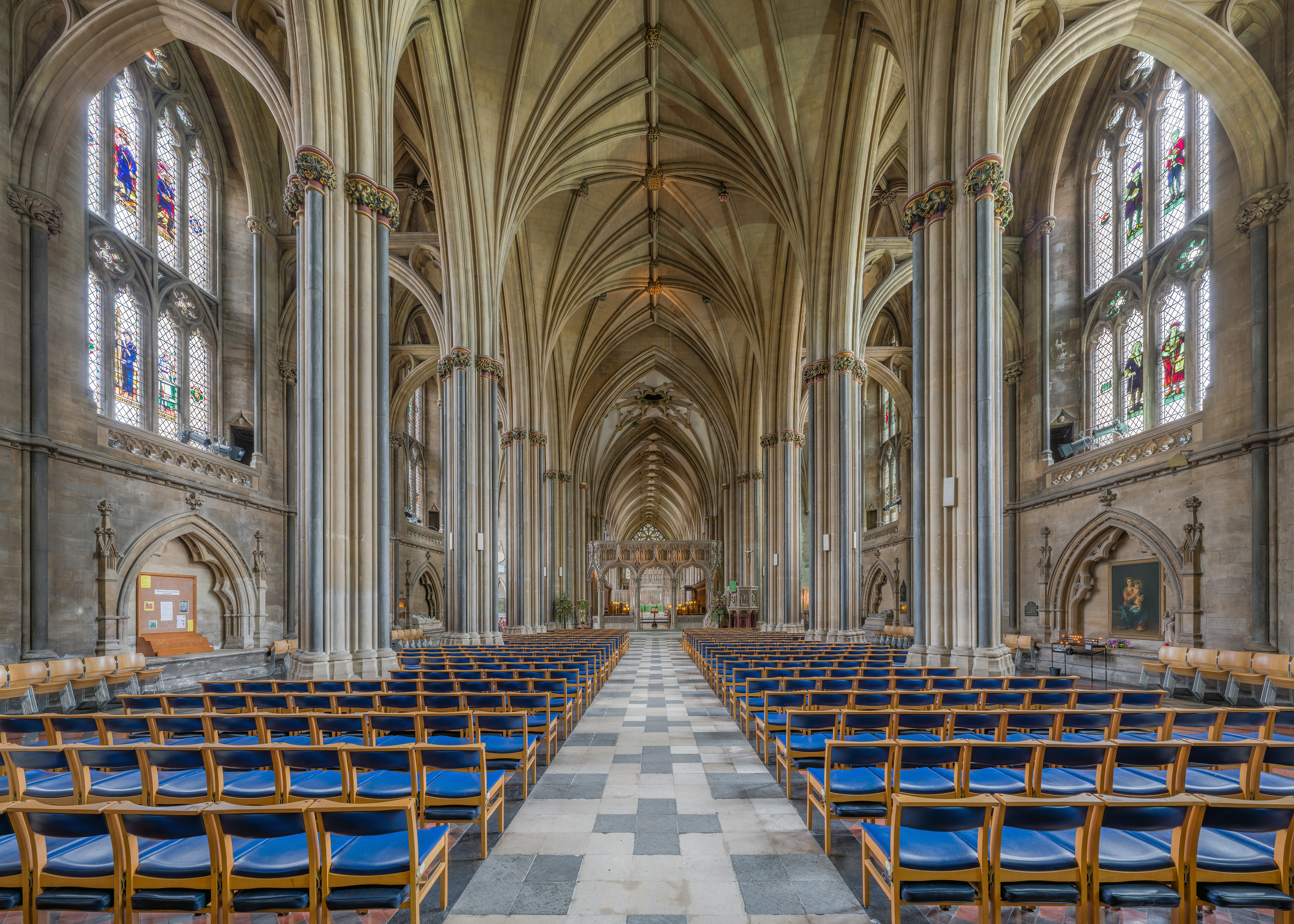 The nave of Bristol Cathedral looking east towards the high altar and choir in Bristol, England.